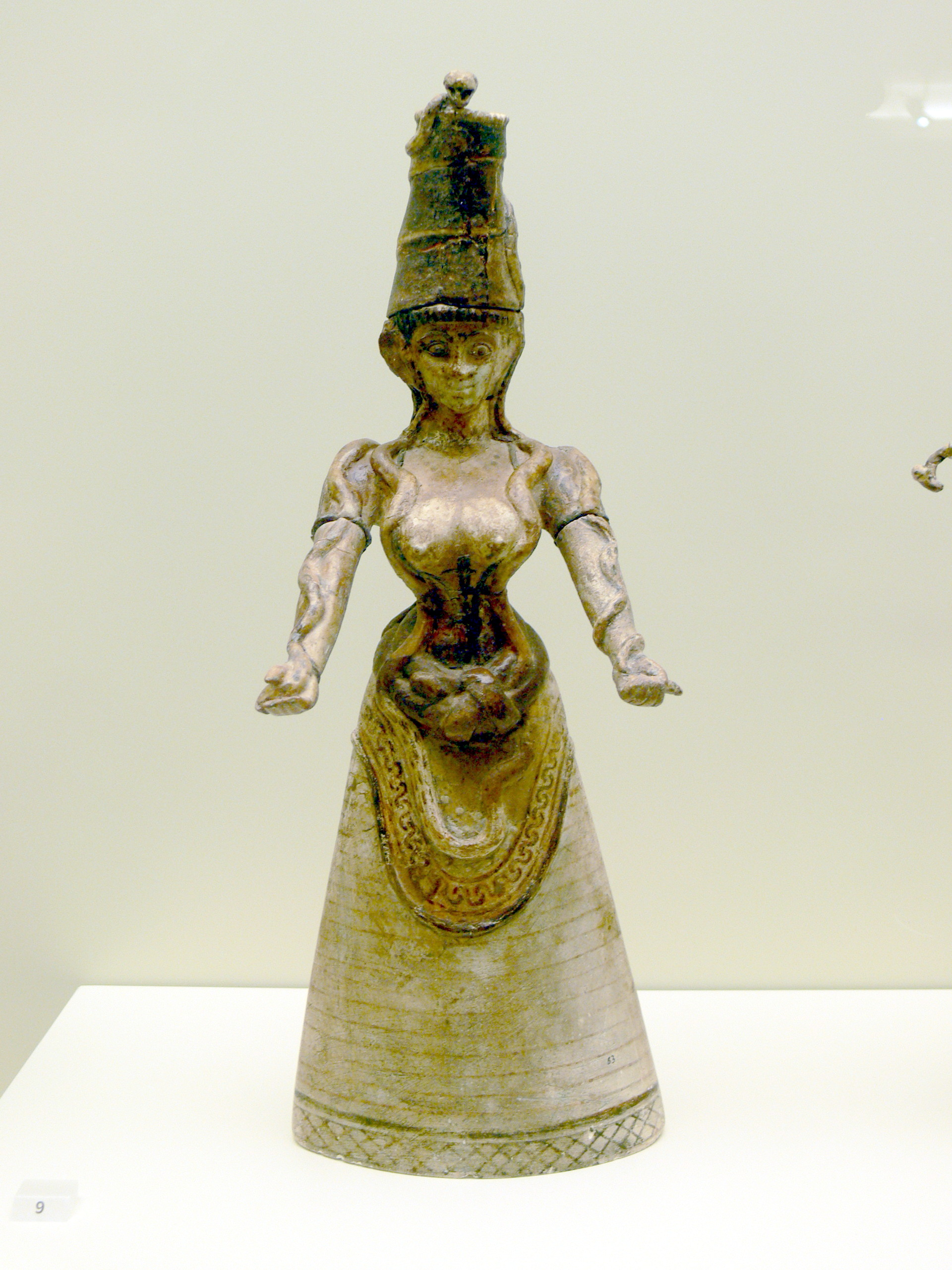 Archaeological Museum in Herakleion. Minoan priestess with snakes ( so called "snake goddess")